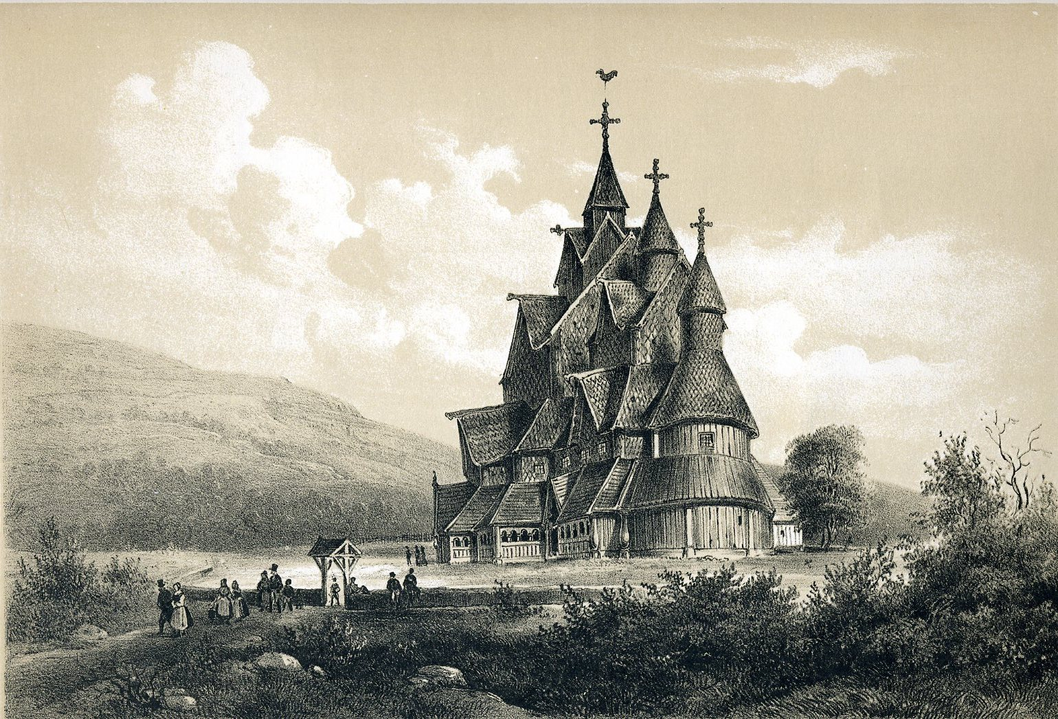 Pictures from the Work "Norge fremstillet i billder" 1848 by Chr. Tønsberg. Heddal church, Heddal, Notodden kommune, Telemark county, Norway.